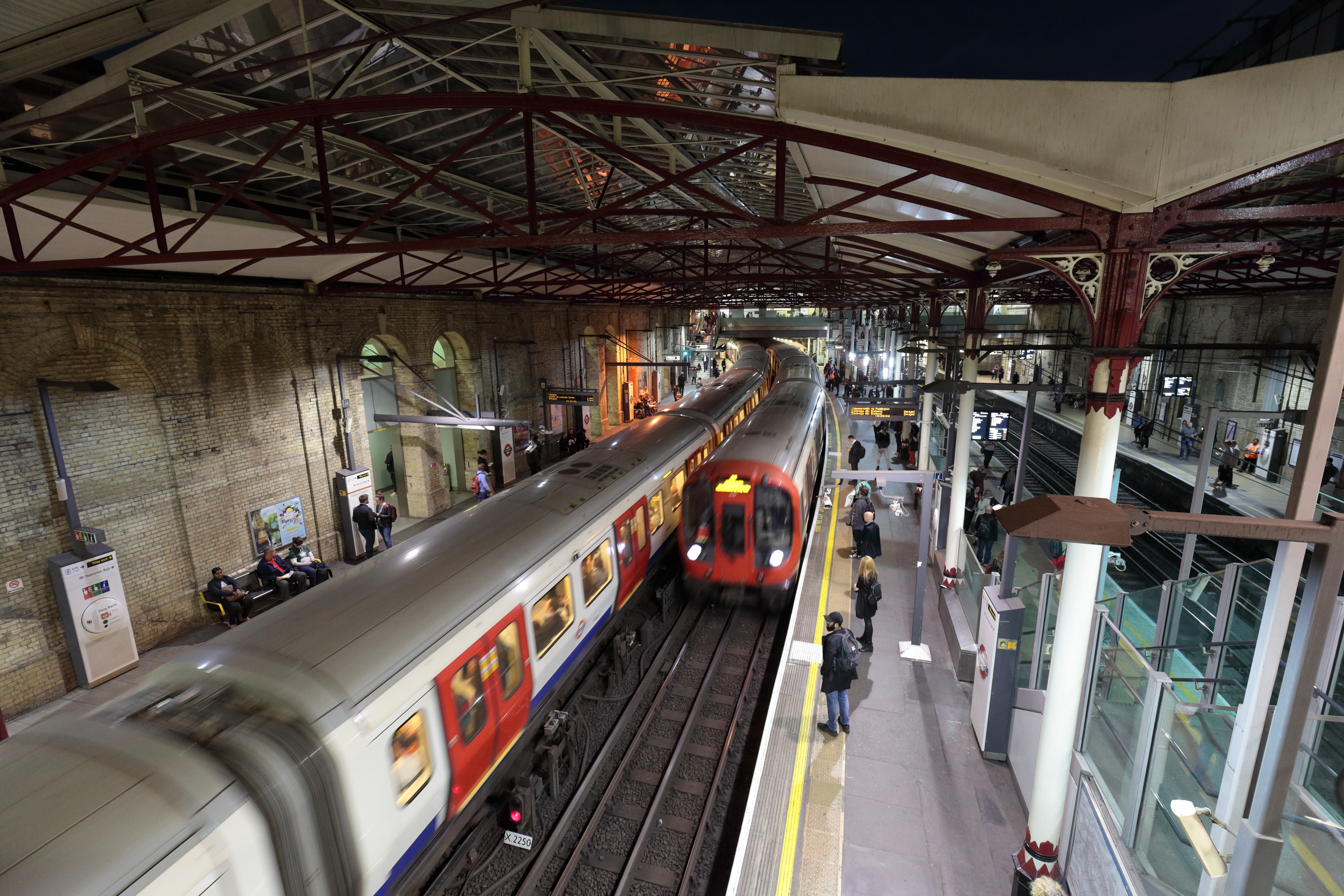 Farringdon Station, its pair of London Underground tracks on the left, and its pair of mainline railway tracks on the right Wikidata has entry Q27084178 with data related to this item.